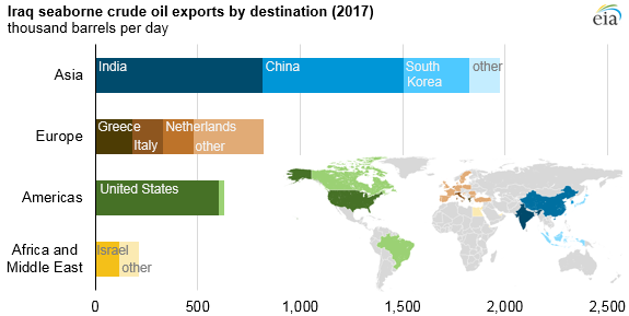 Total seaborne Iraqi crude oil exports averaged 3.8 million b/d in 2017, mostly from terminals in southern Iraq. More than half of Iraqi seaborne exports went to markets in Asia. Exports to the United States accounted for 17% of total Iraqi exports. January 11, 2019